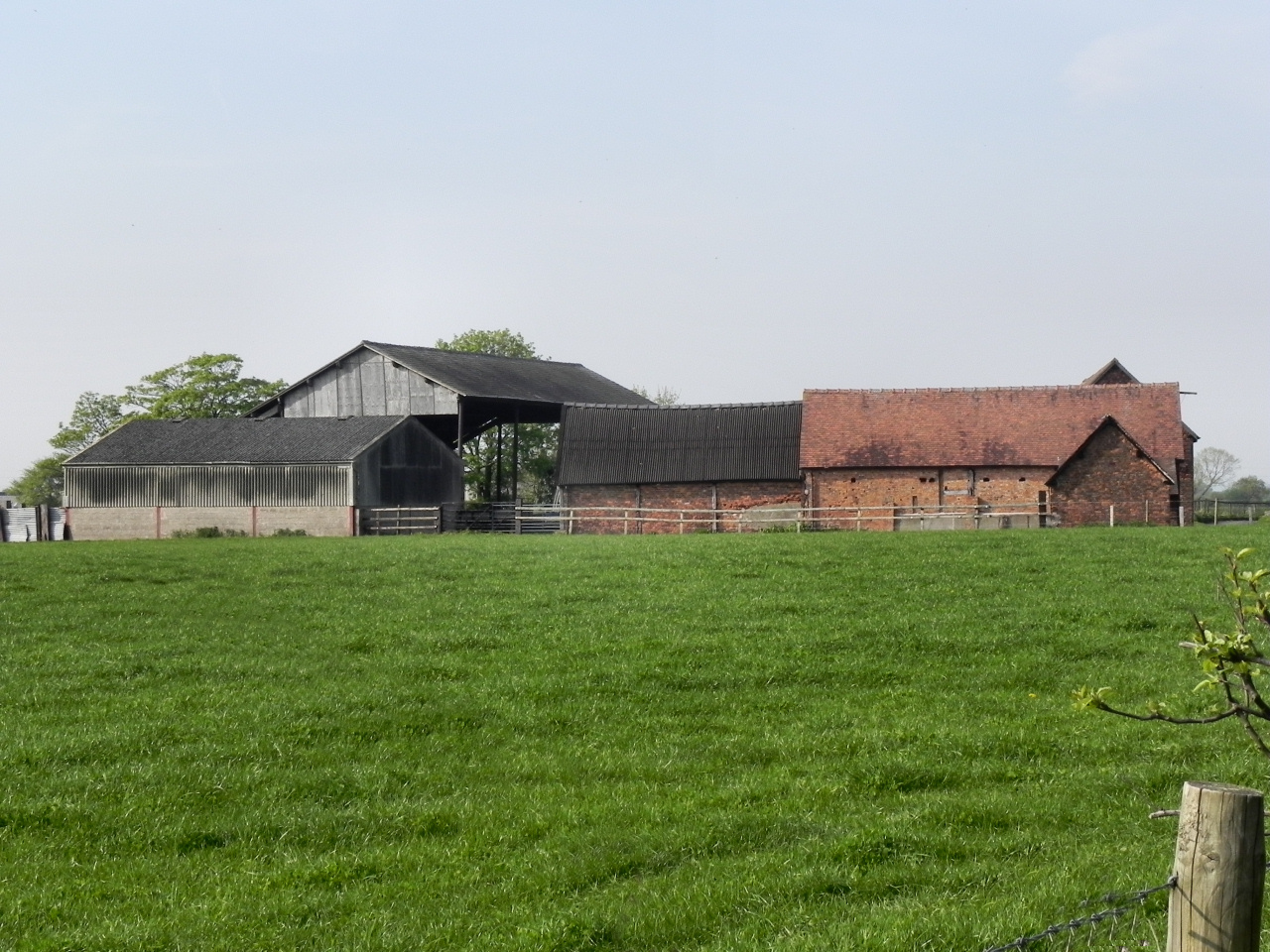 Photograph of Bent Farm, Warburton, Greater Manchester, England